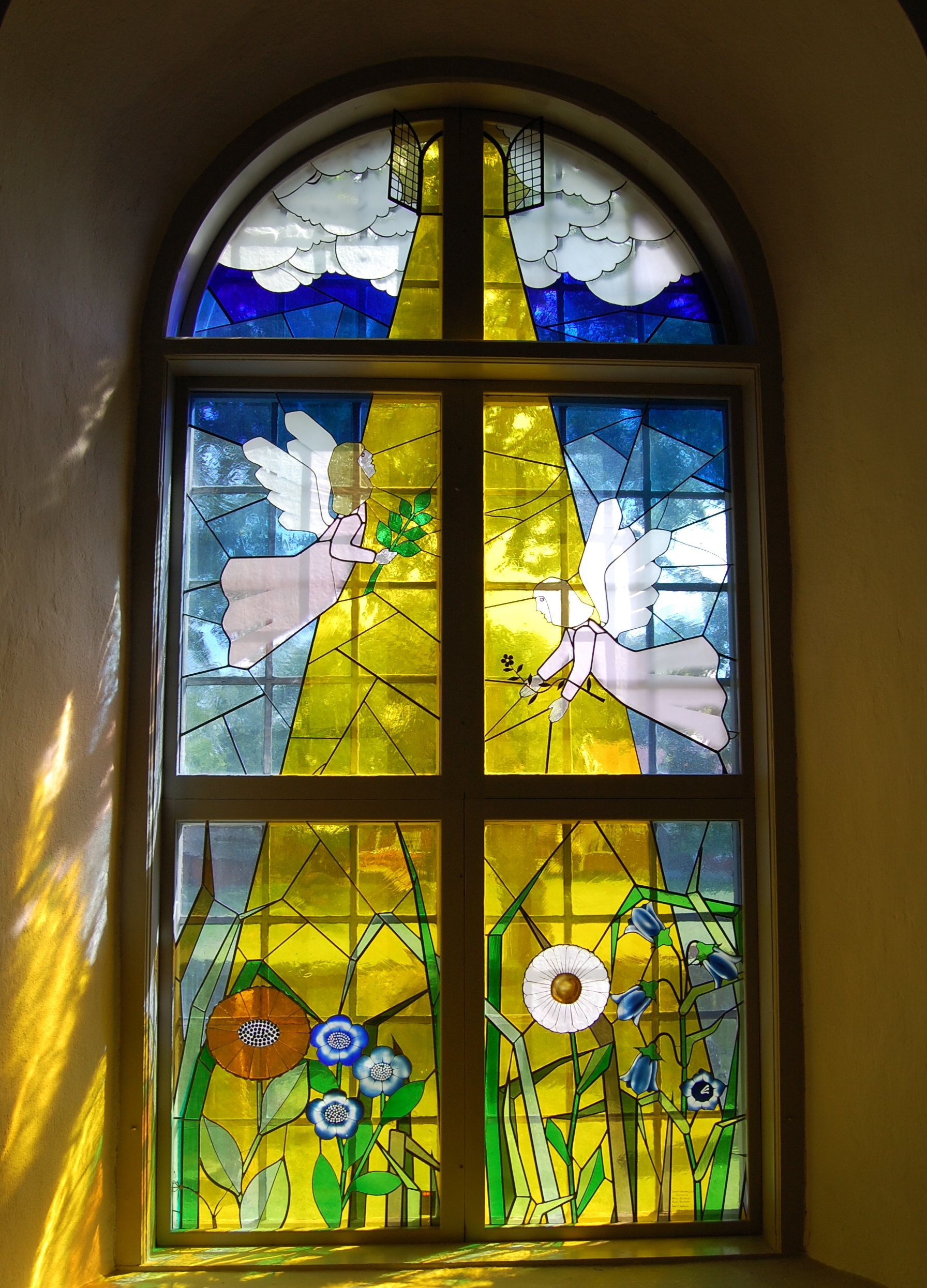 Kristvalla ChurchStained glass in the South chancel window performed 1983-84 by Kjell Engman, Boda.